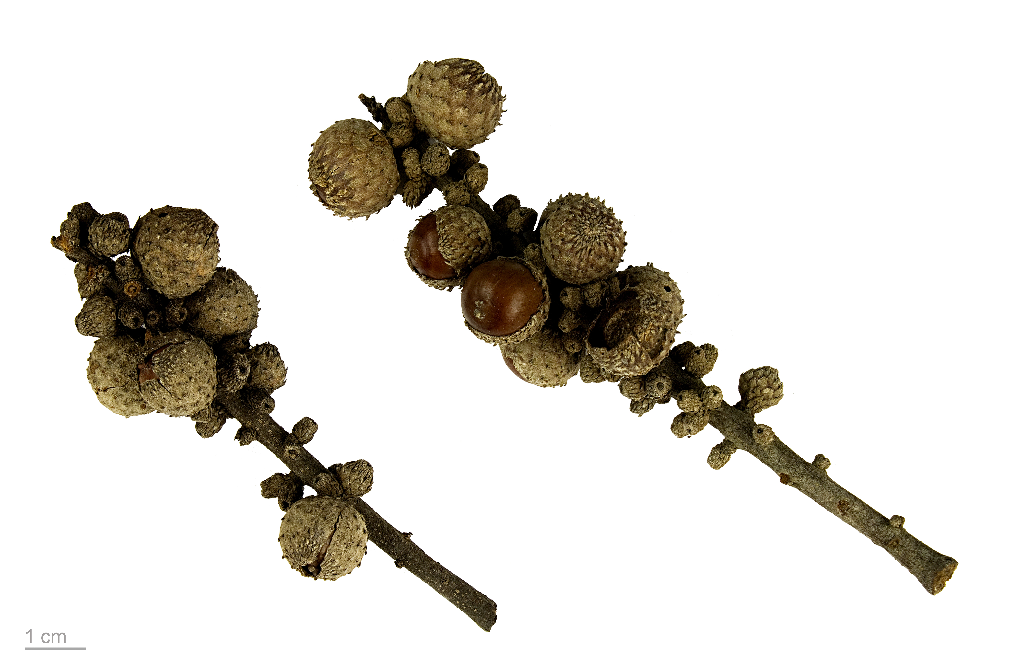 Lithocarpus sp. , fruits and seeds